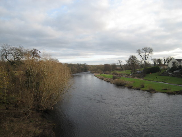 Source description says: "River Tees at Piercebridge - view east. This photograph was taken from the bridge in Piercebridge and shows the River Tees as it flows in an easterly direction towards the sea at Teesmouth. The George Hotel (on the B6275 road) can just be seen in the right-hand side of the picture." This bridge from which the photo was taken joins Piercebridge, Durham and Cliffe, Richmondshire.